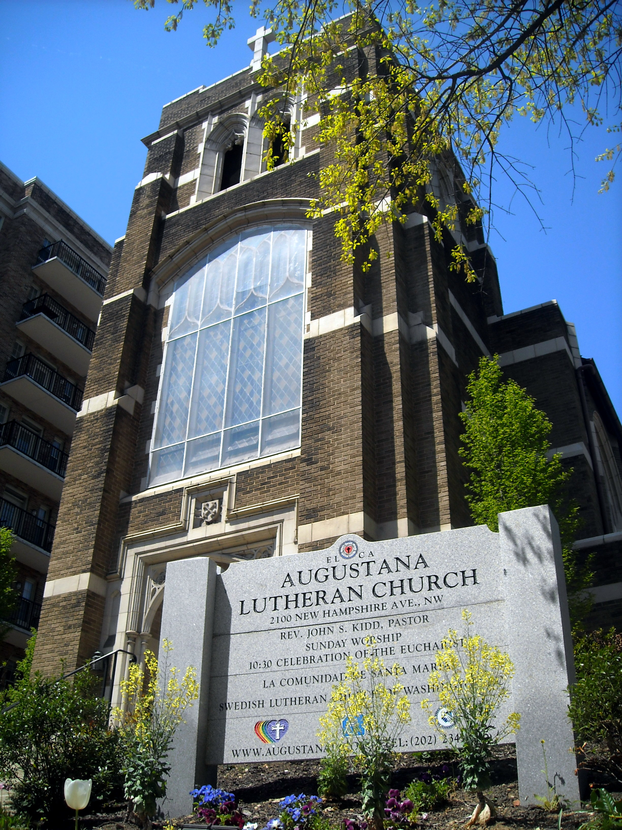 Augustana Lutheran Church is located at 2100 New Hampshire Avenue, NW in the U Street Corridor of Washington, D.C. Originally named St. Erik's, the church was established in 1918 by Swedish immigrants. The "Reconciling in Christ" congregation (LGBT-friendly) is affiliated with the Evangelical Lutheran Church in America denomination.